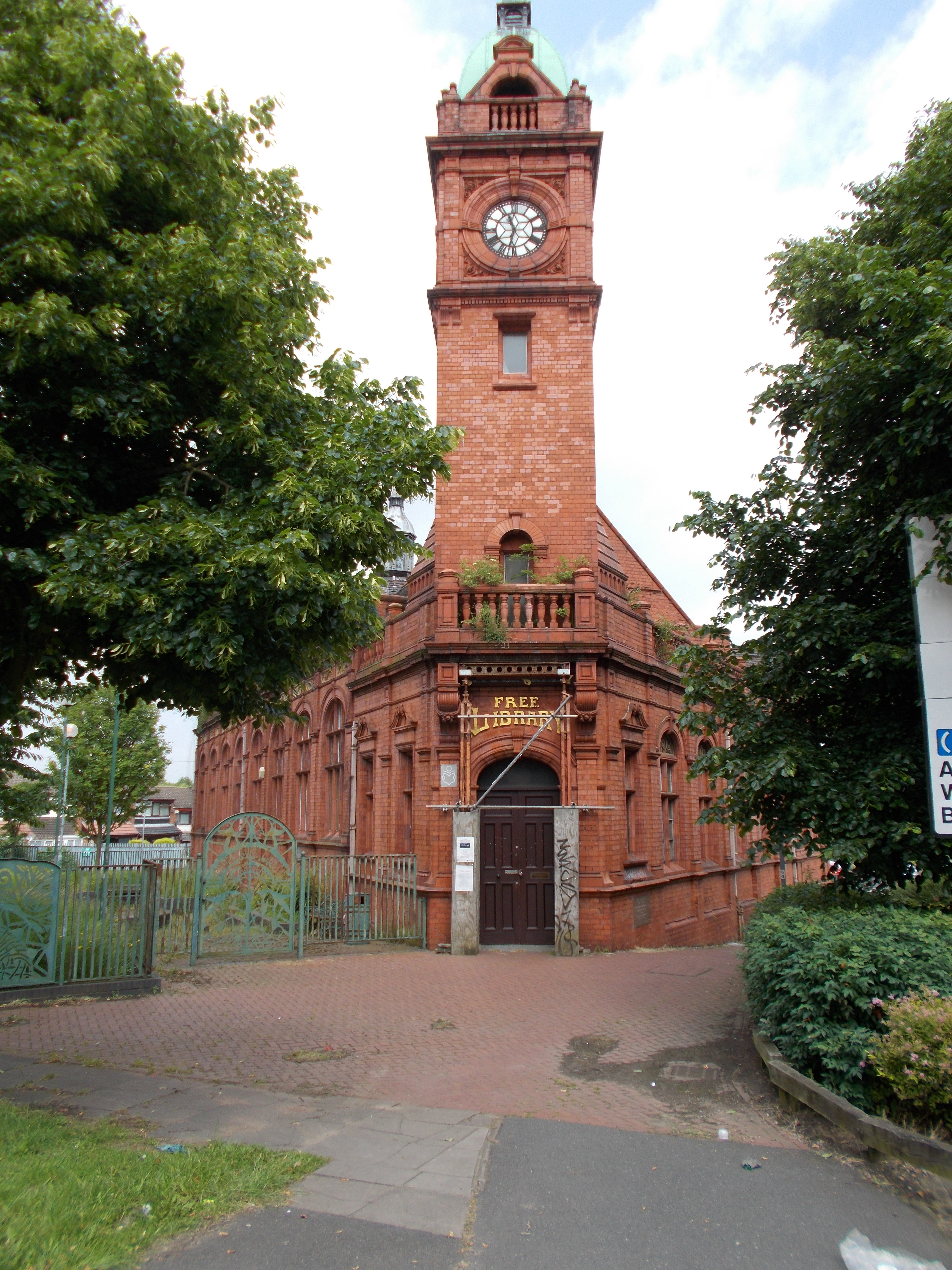 Bloomsbury Library on Nechells Parkway. As of 2014, it was out of use due to the condition of the building. Library facilities were being provided from a mobile library.